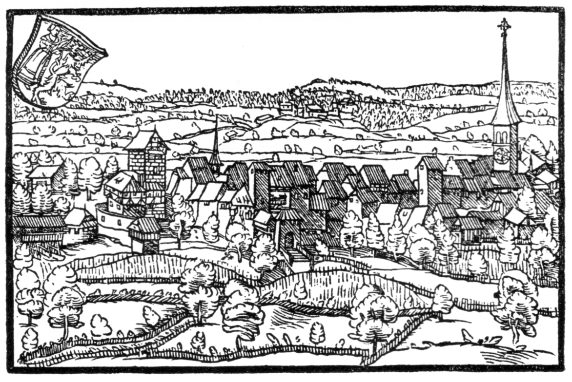 The town of Frauenfeld in the Thurgau. Woodcut from the cronicle of Stumpf 1548